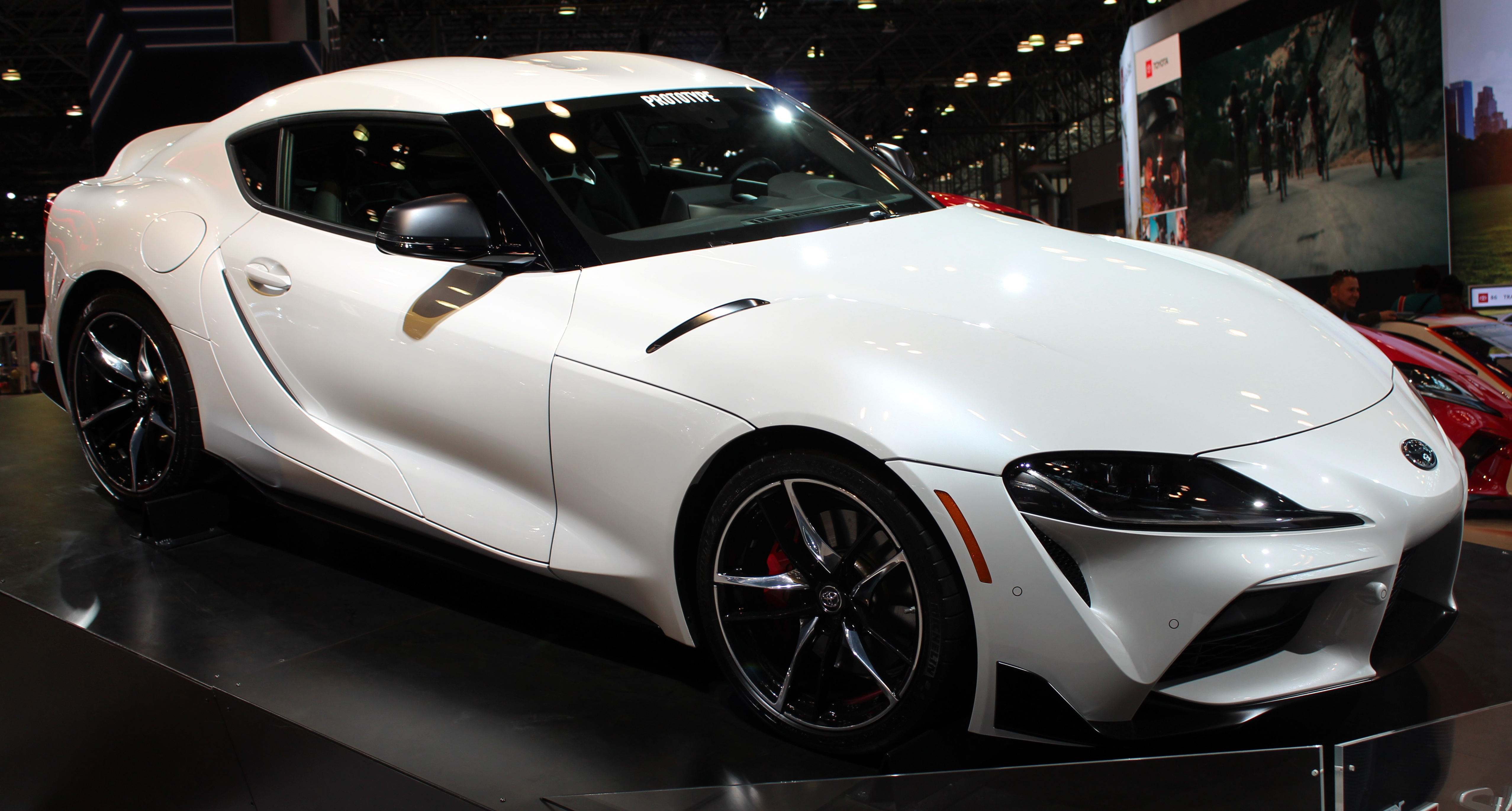 A 2020 Toyota Supra photographed during the 2019 New York International Auto Show, in Hudson Yards, Manhattan, NYC